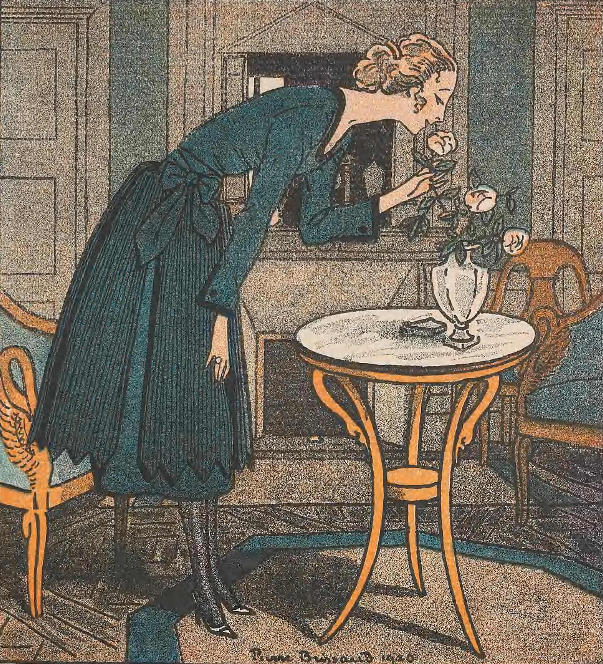 Illustration by Pierre Brissaud